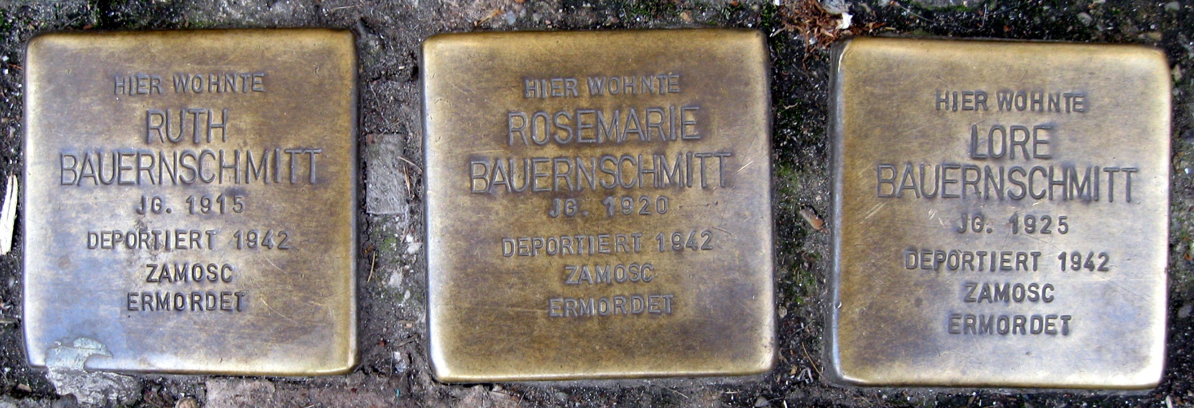 Stolpersteine at house Lessingstraße 67 in Dortmund, GermanyEsperanto: Stumbligaj ŝtonetoj ĉe domo Lessingstraße 67 en Dortmund, Germanio